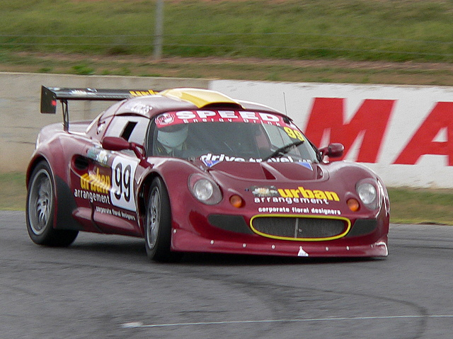 2006 Australian GT Championship season Lotus Exige GT3 race car number 99 driven by Peter Lucas during Round 5 at Mallala Motor Sport Park